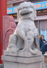 Closeup of the lion guarding Victoria, BC's Chinatown gate.